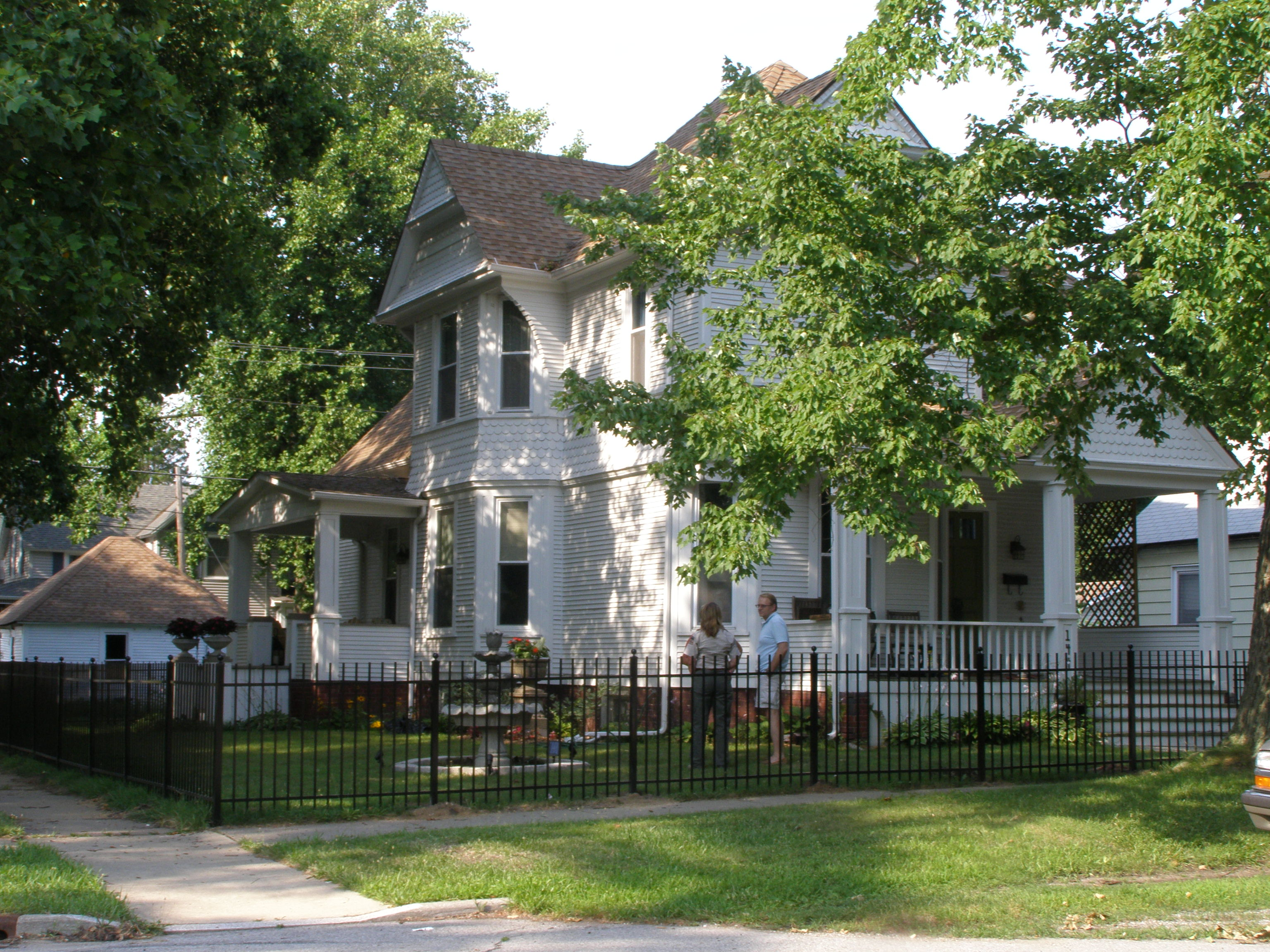 Queen Anne design, located in Chesterton Residential Hist Dist, Chesterton, Ind. 144 Lincoln Ave.